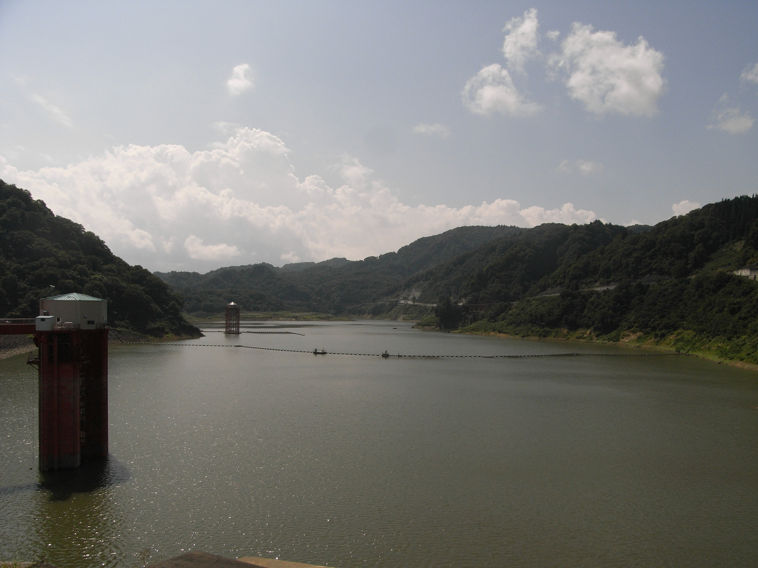 Lake Shirakawako(Okitama-Shirakawa river/Yamagata Pref./Japan)